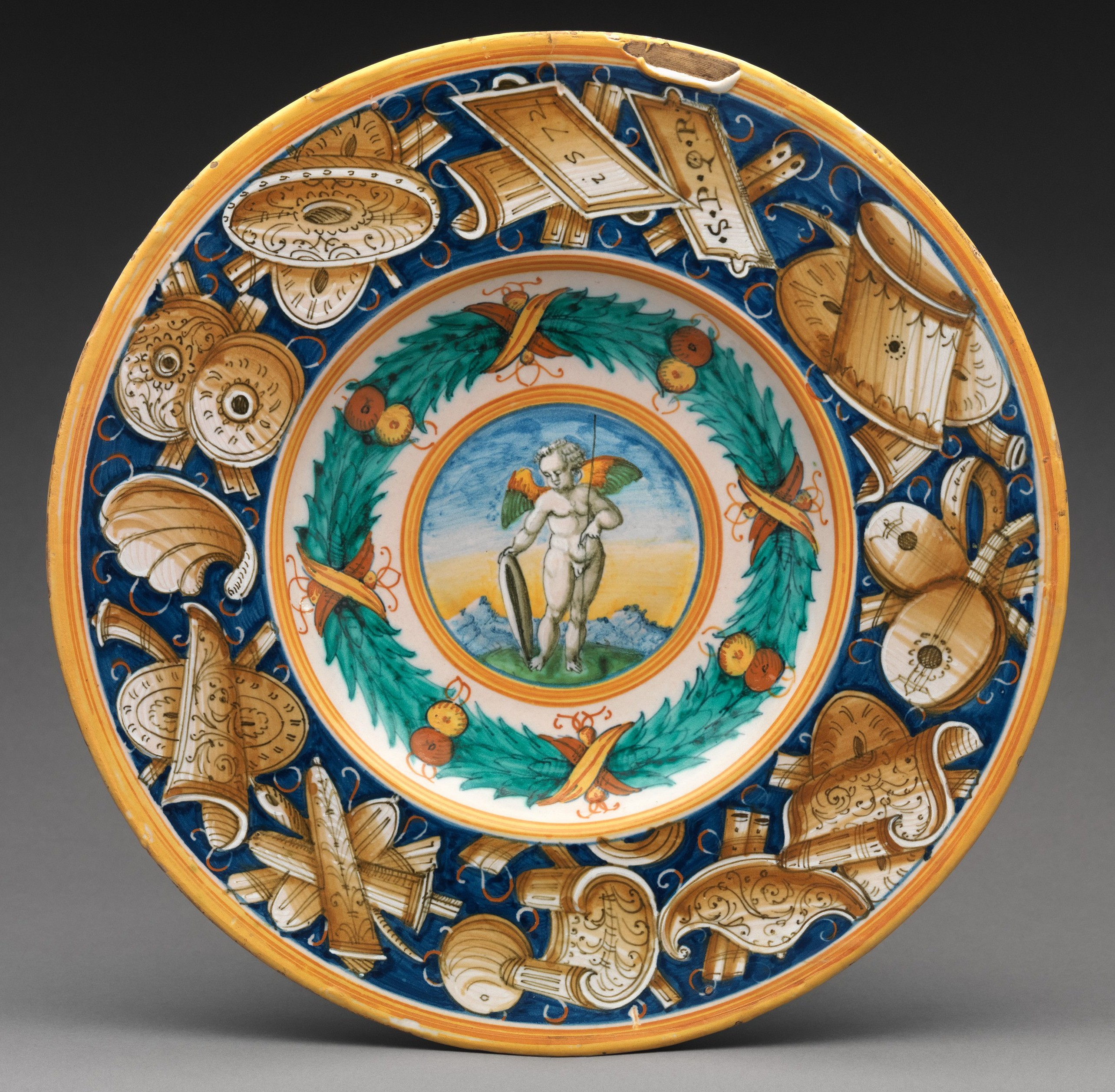 Italian, Duchy of Urbino (Pesaro or Castel Durante); Dish; Ceramics-Pottery